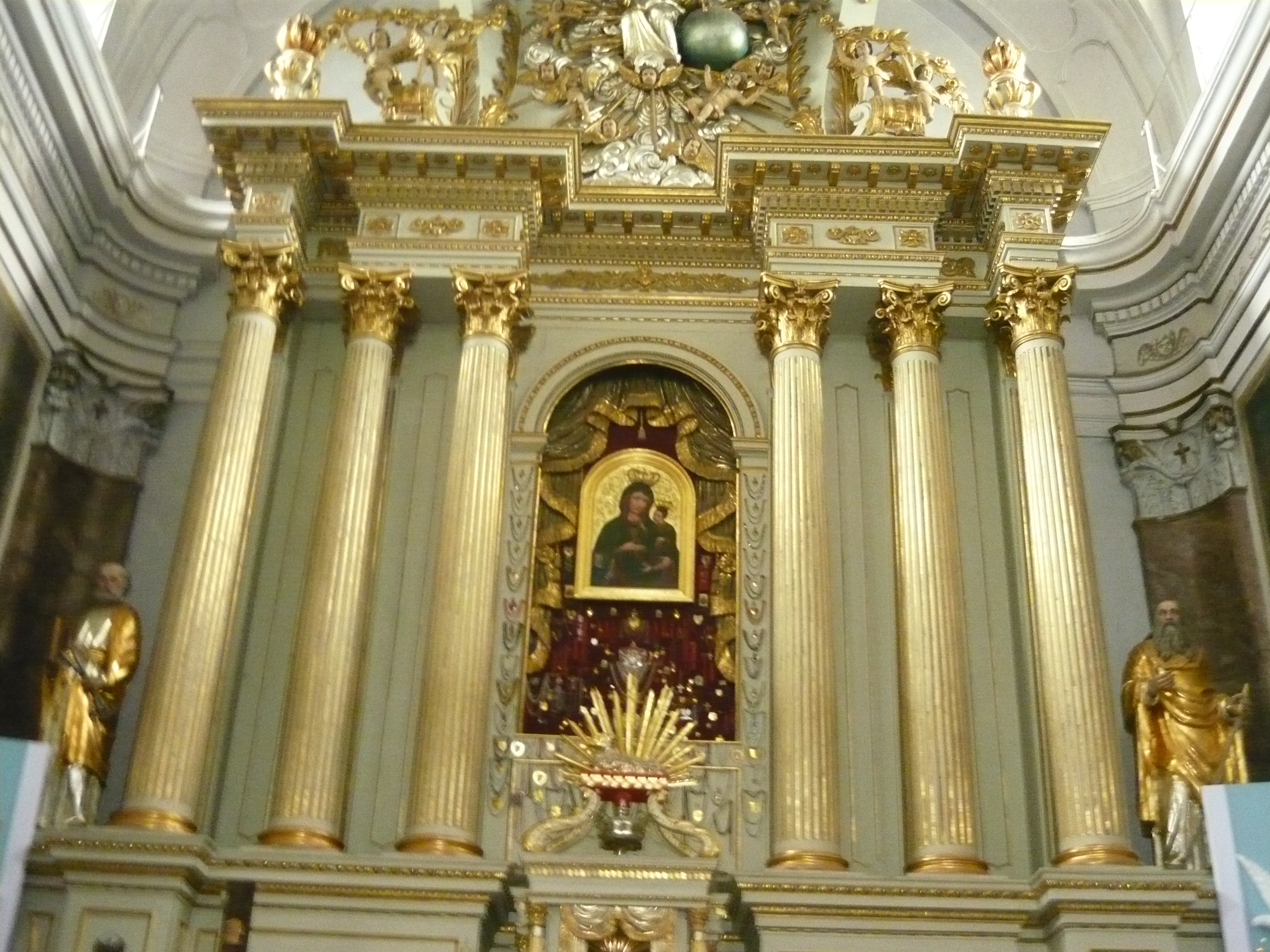 Ołtarz główny świątyni